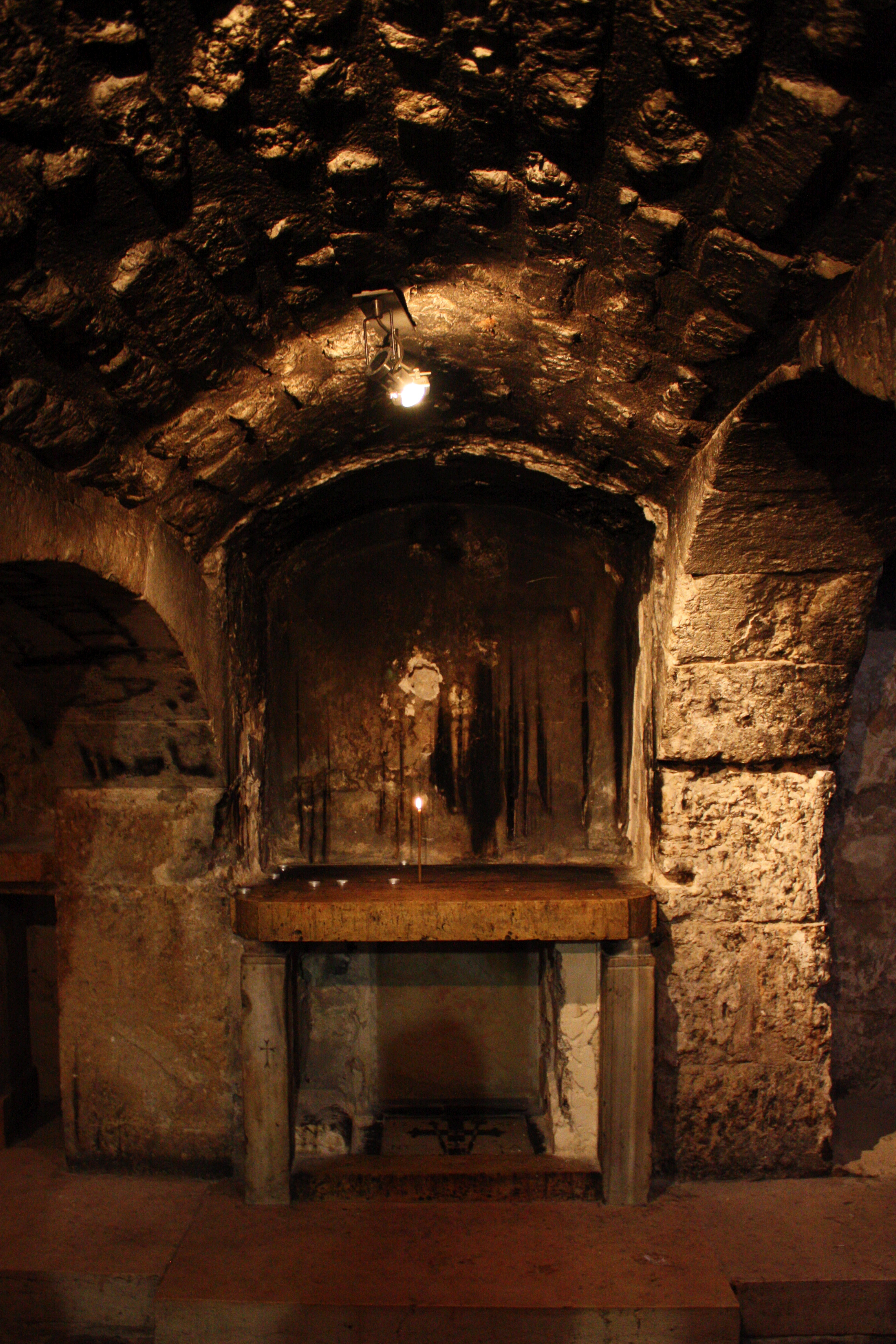 Jerusalem - The Old City - 155